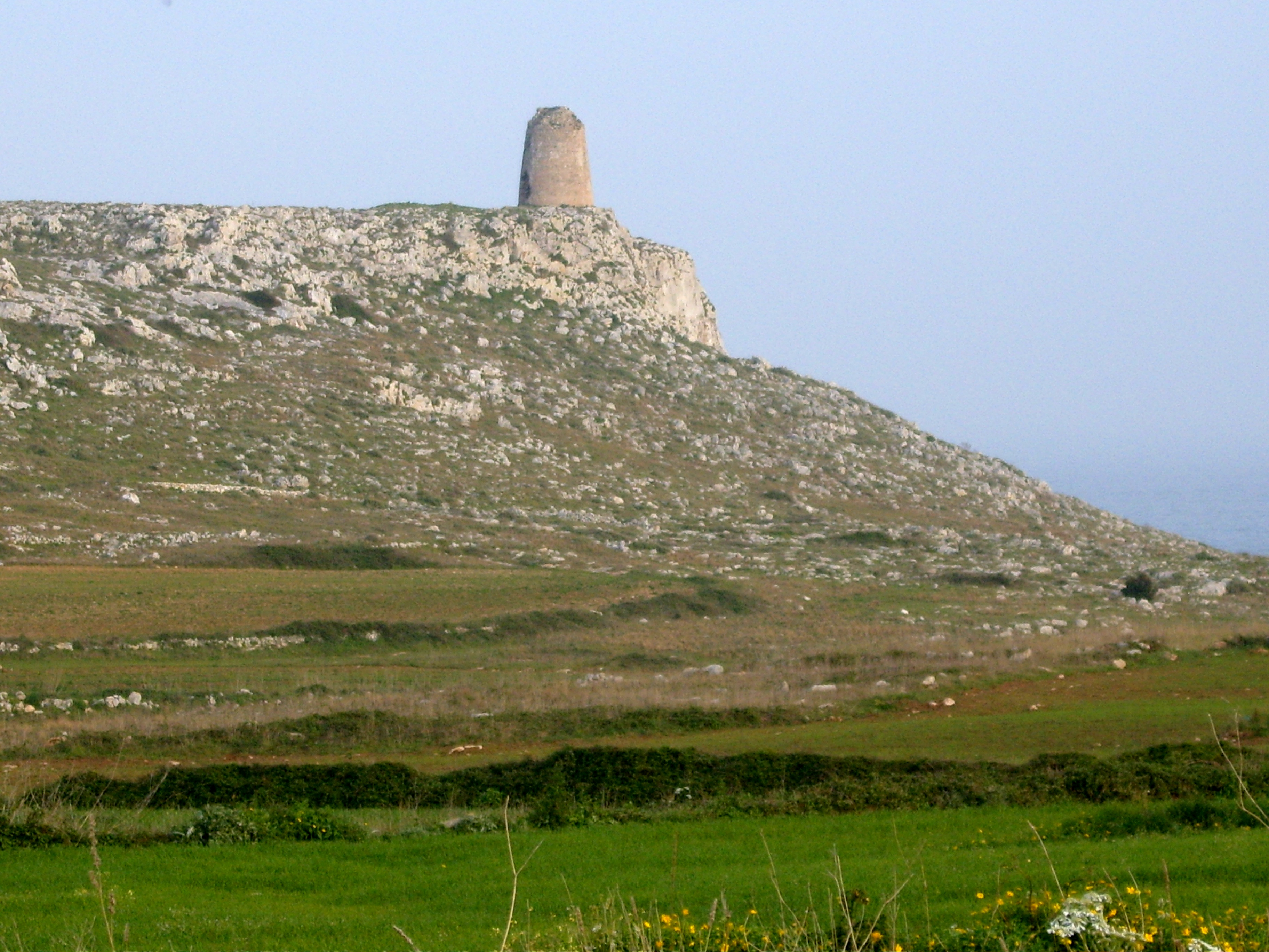 Torre Sant'Emiliano, near Otranto, Province of Lecce - Apulia